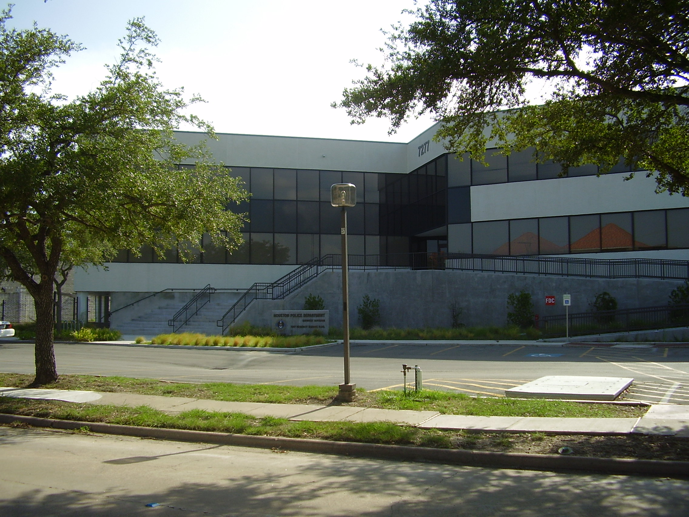 Mid-West Police Substation - 7277 Regency Square, Houston, TX